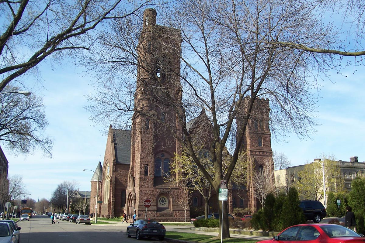 St. Paul's Episcopal Church (Rectory and Chapel) in the Yankee Hill neighborhood of Milwaukee, Wisconsin, was designed by E. Townsend Mix and constructed between 1882 and 1890 at a cost of $160,000 ($150,000 for the chapel, $10,000 for the steeple). Noted for its large collection of Tiffany stained glass, it was added to the National Register of Historic Places in 1974. This photo copyright © 2005 by Sulfur